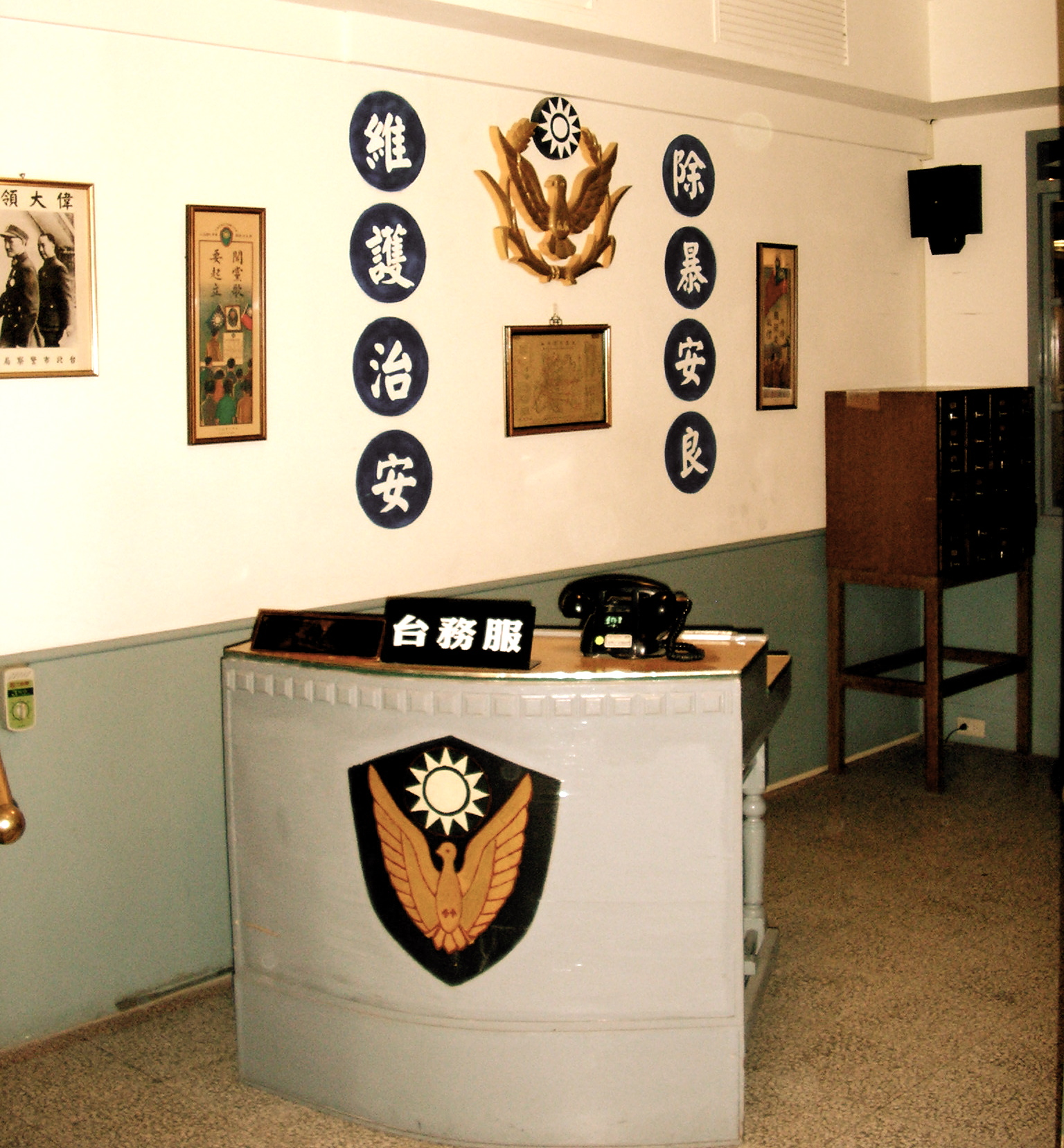 Recreation of the interior of a 1970s era Taipei police station in the Taiwan Storyland (台灣故事館) retro theme mall.